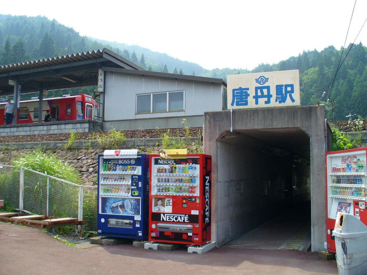 Front view of Toni station on Sanriku Railway Minami Riasu Line, in Kamaishi, Iwate, Japan